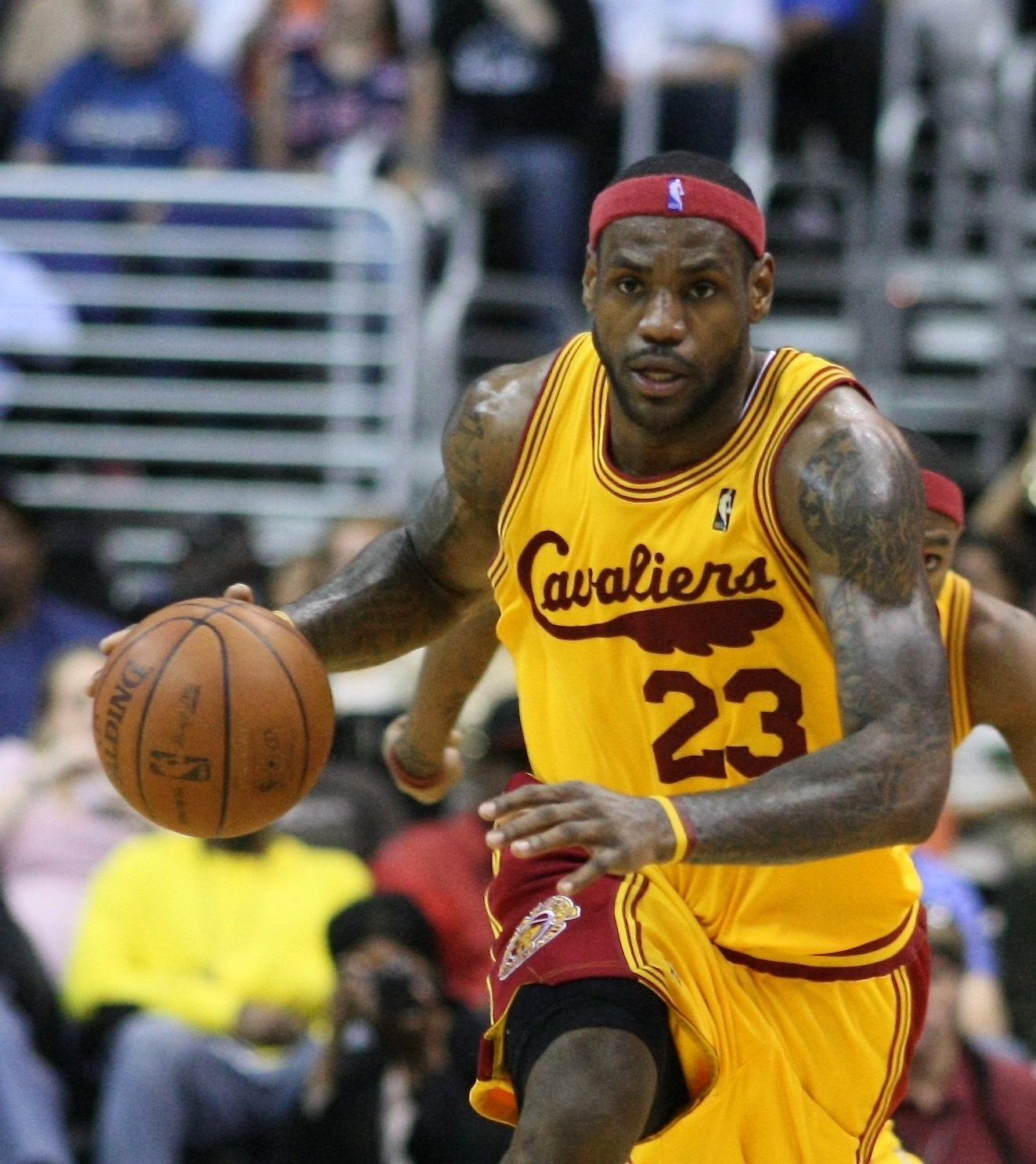 LeBron James #23 of his last game on the Cleveland Cavaliers in action against the Washington Wizards at the Verizon Center on April 2, 2009 in Washington, DC.